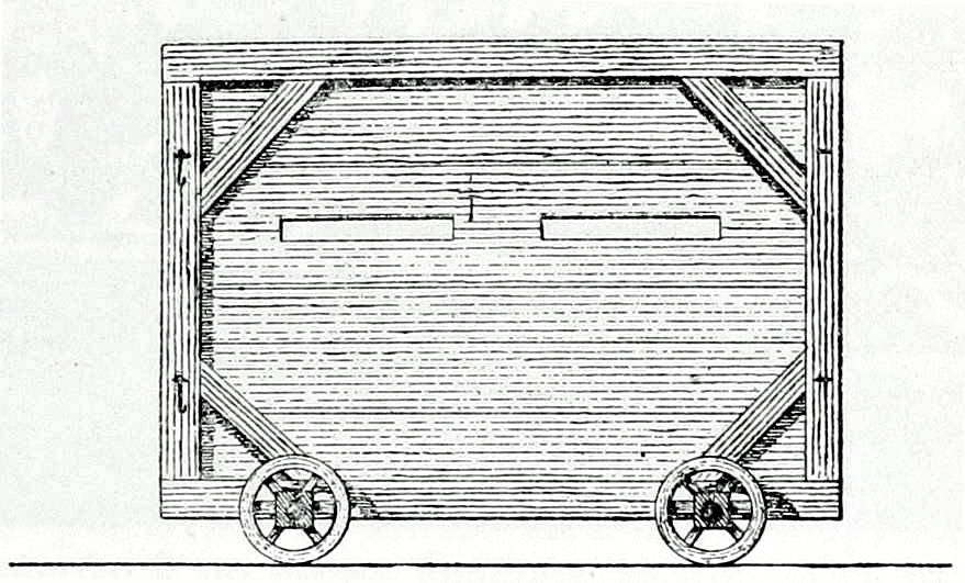 Gulyay-gorod, also guliai-gorod, (Russian: Гуля́й-го́род, literally: "wandering town"), was a mobile fortification used by the Russian army between the 15th and the 17th centuries.